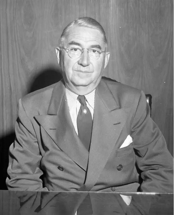 Portrait of Emil R. Fischer, former president of the Green Bay Packers